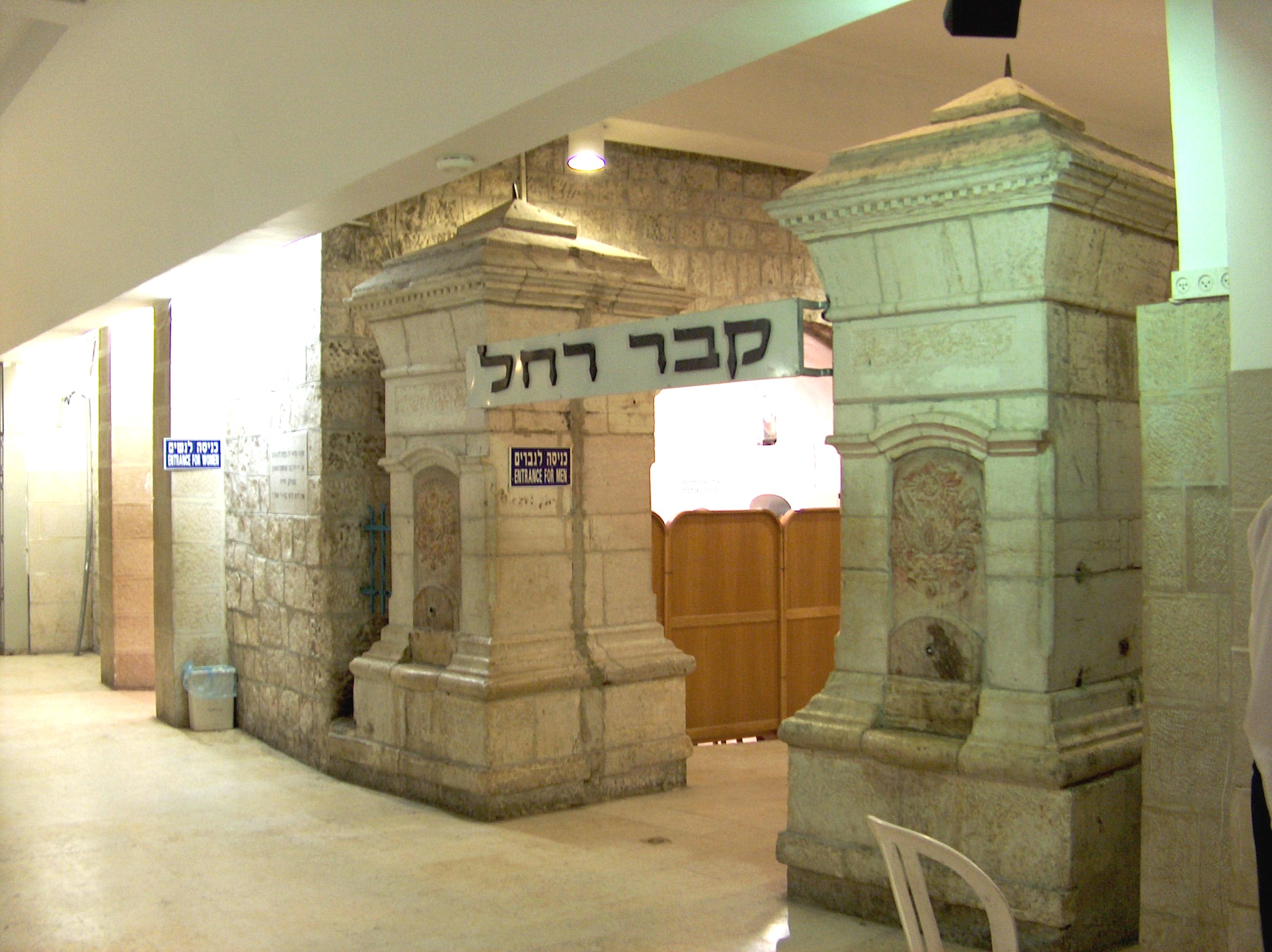 Rachel tomb gate